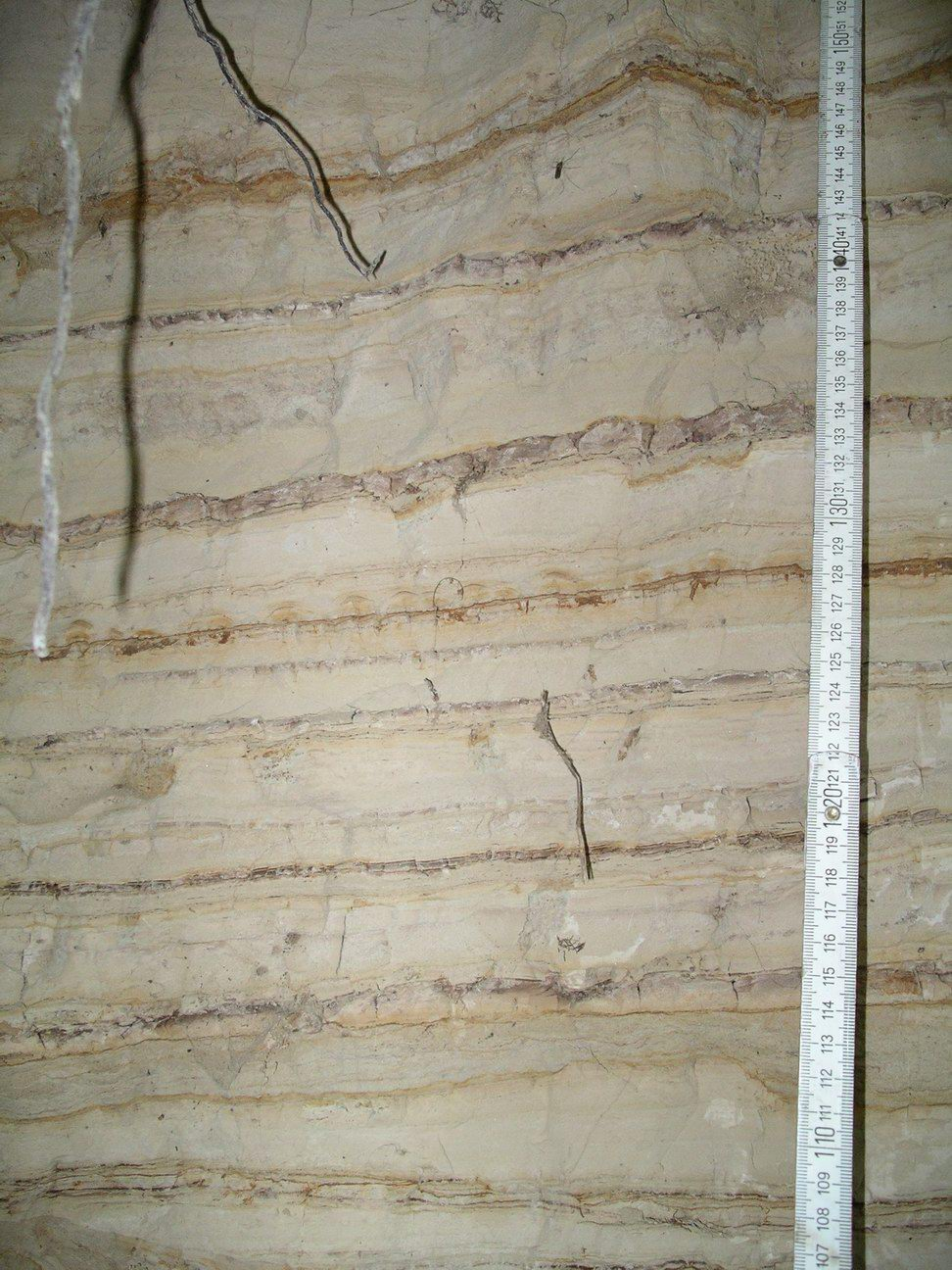 Banded clay and silt exposed in a clay pit in the German State (Bundesland) of Brandenburg (village of Macherslust near town of Eberswalde). The light layers (silt) are the coarser grained summer deposits, the dark layers (clay) had been deposited in winter.